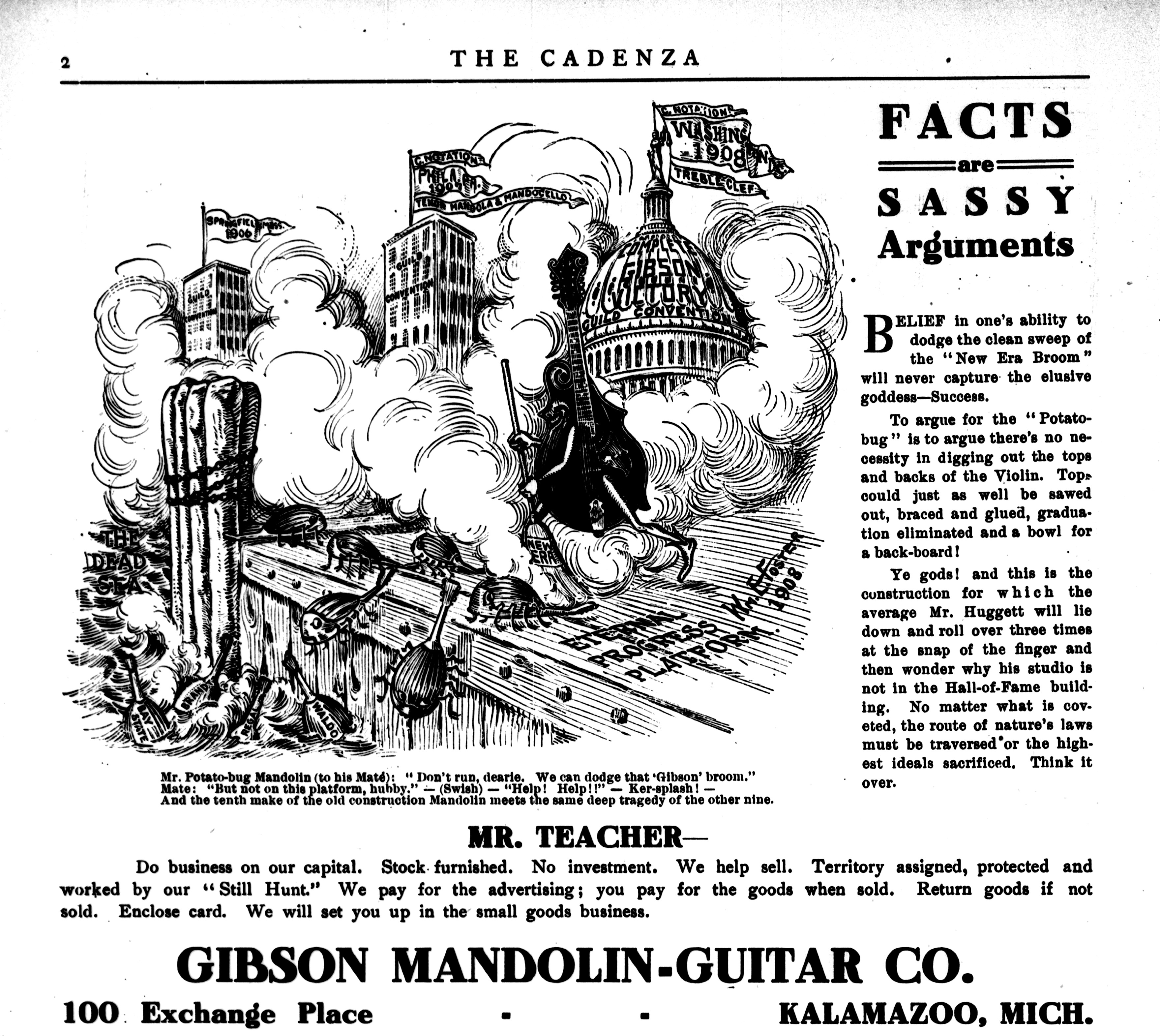 Advertisement for Orville Gibson's mandolins. Gibson was aggressively promoting the idea that his mandolins represented progress. He disparaged the older round-back mandolins (Italian-style origin) as potato bugs (due to the striped pattern on their backs, from strips of wood in alternating colors).